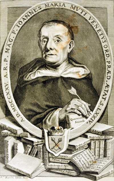 Giovanni Maria Muti